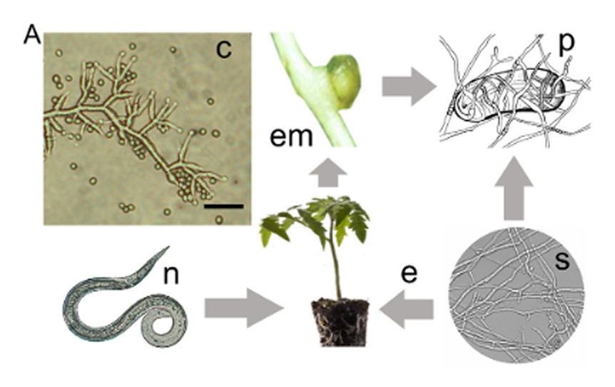 Fig 1. Lifestyles of nematophagous Purpureocillium lilacinum. (A) Microscopic conidiophores and conidia (c) of P. lilacinum. Scale bar = 10 µm. The soil saprophyte (s) P. lilacinum colonizes plant roots as an endophyte (e), and the parasite (p) can occur in nematode eggs in the egg mass (em) generated after the infection with the plant nematode (n).